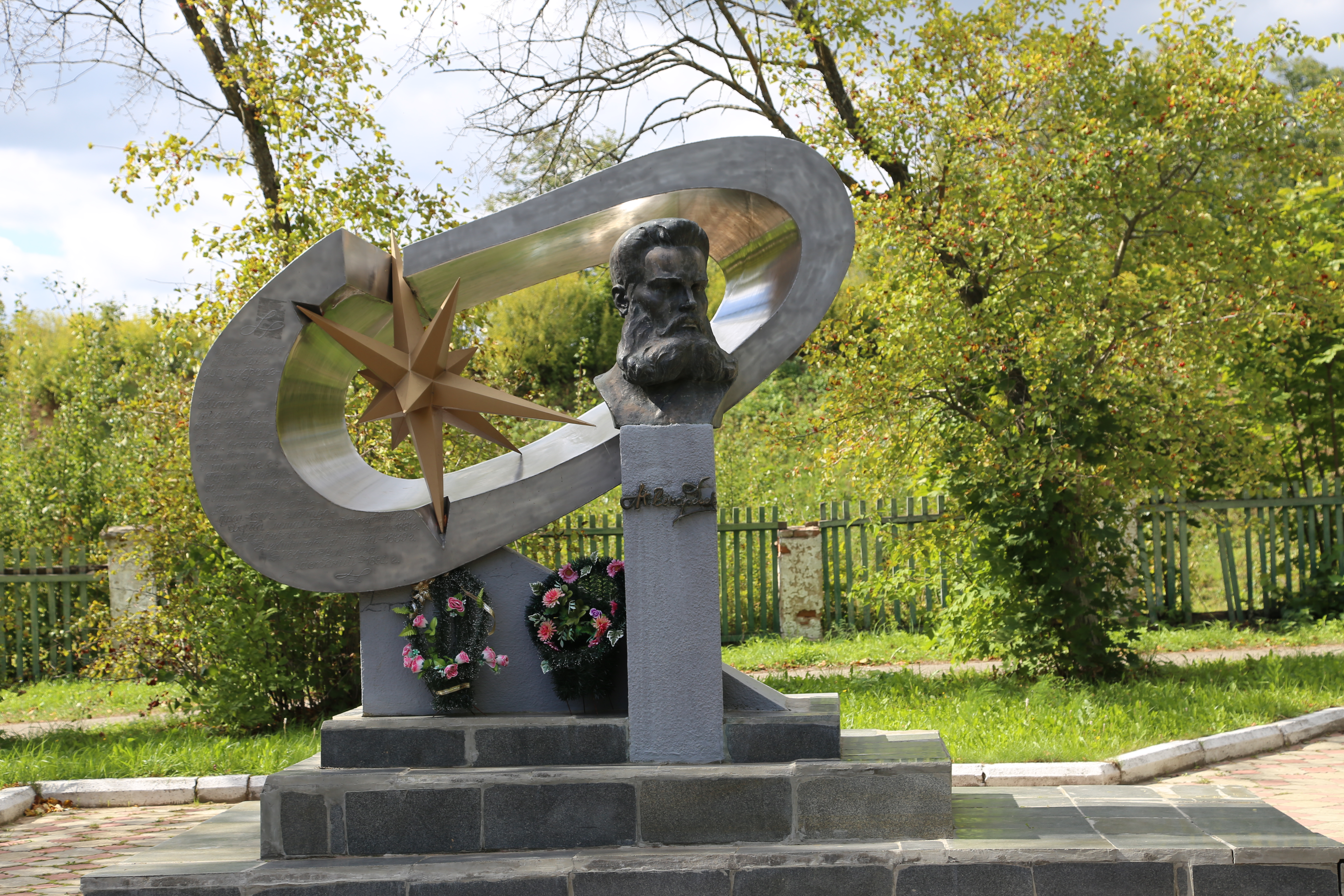 Nikolay Benardos Memorial at Lukh Village, Ivanovo Oblast. 1981.